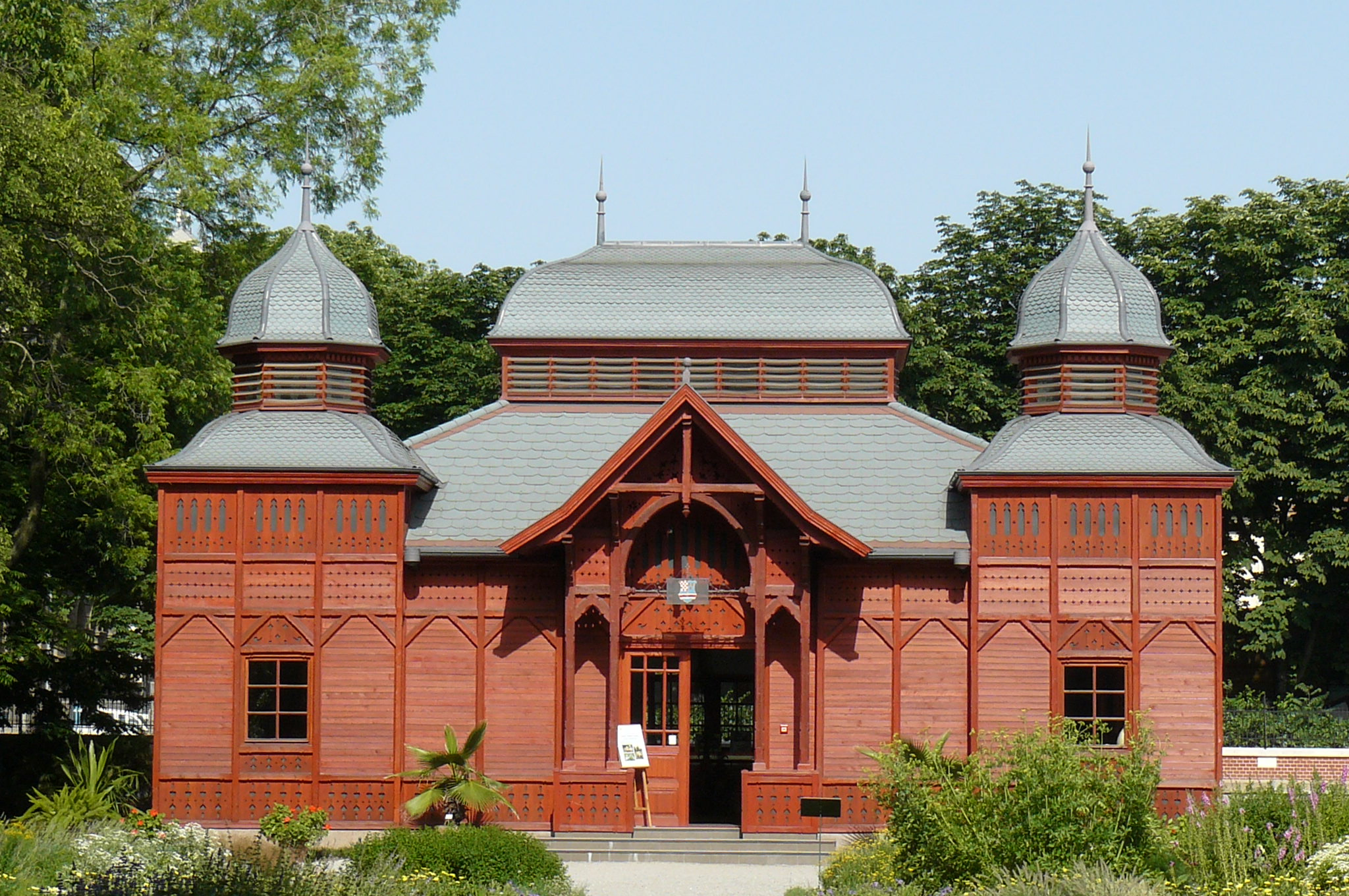 Pavillon in Botanical Garden in Zagreb.